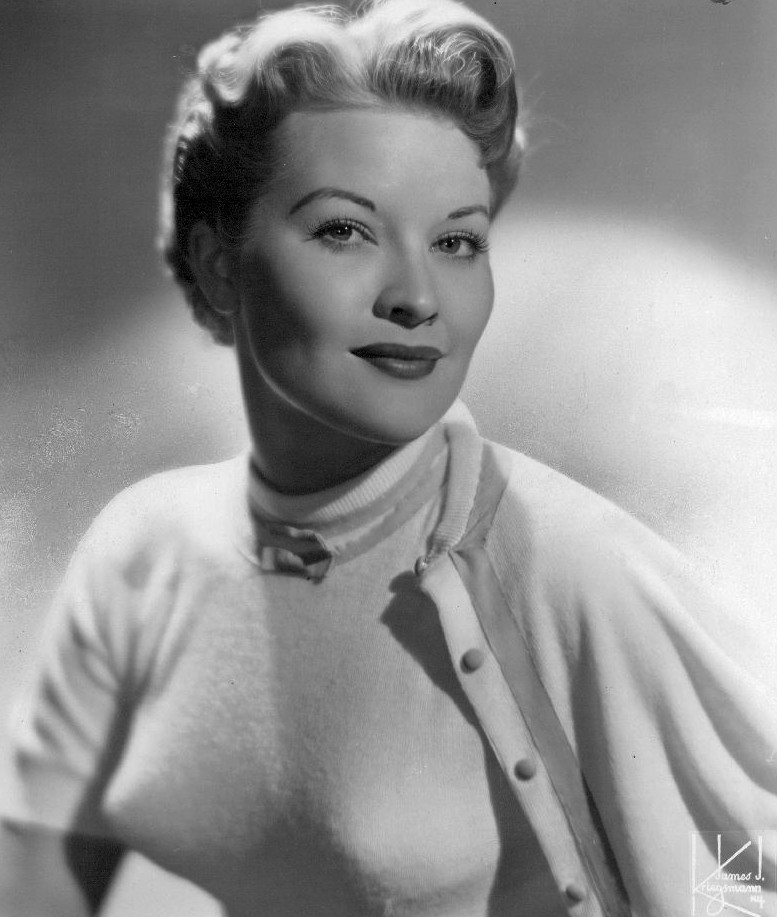 Publicity photo of Patti Page.